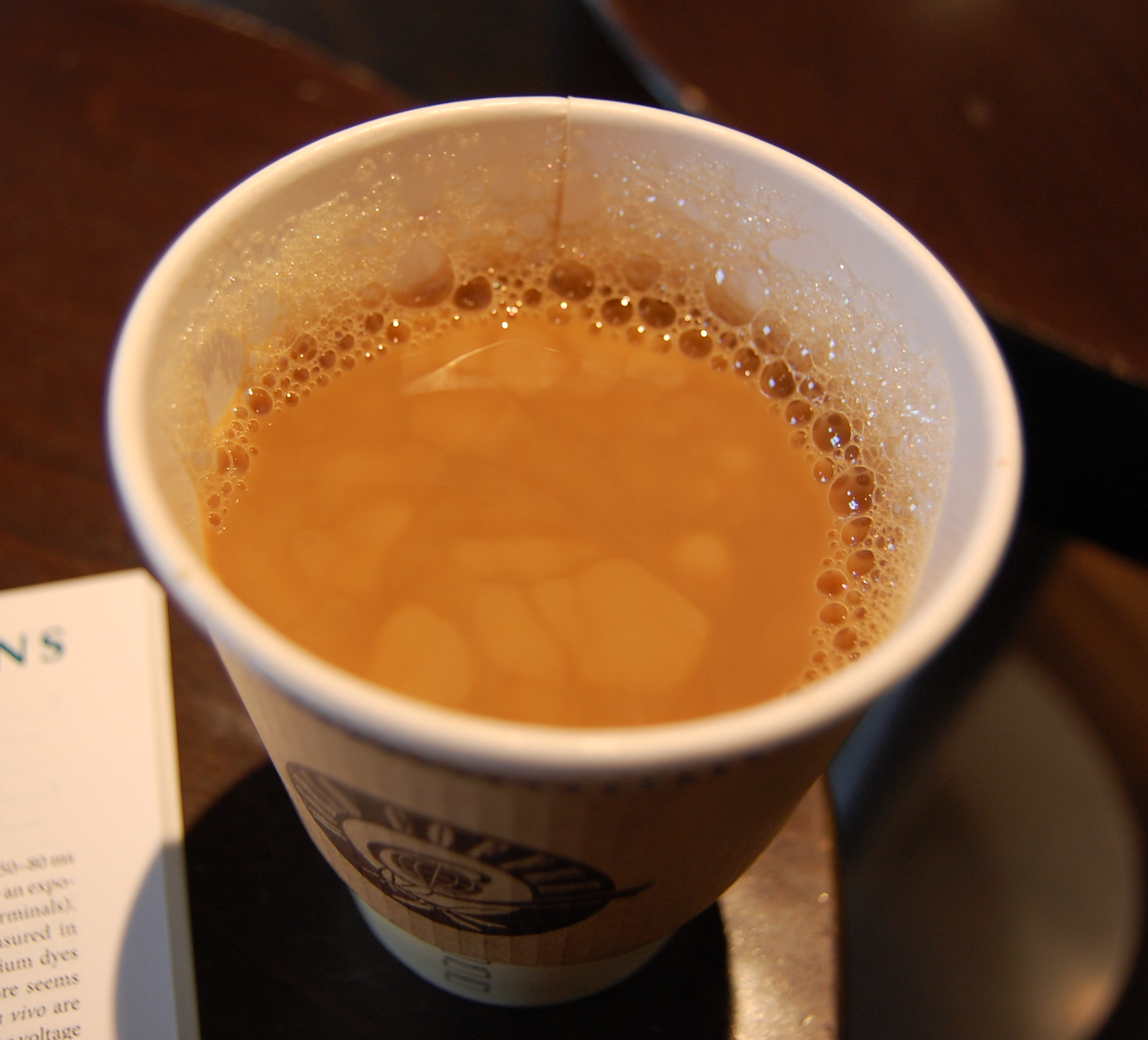 Convective heat transfer in a cup of coffee.